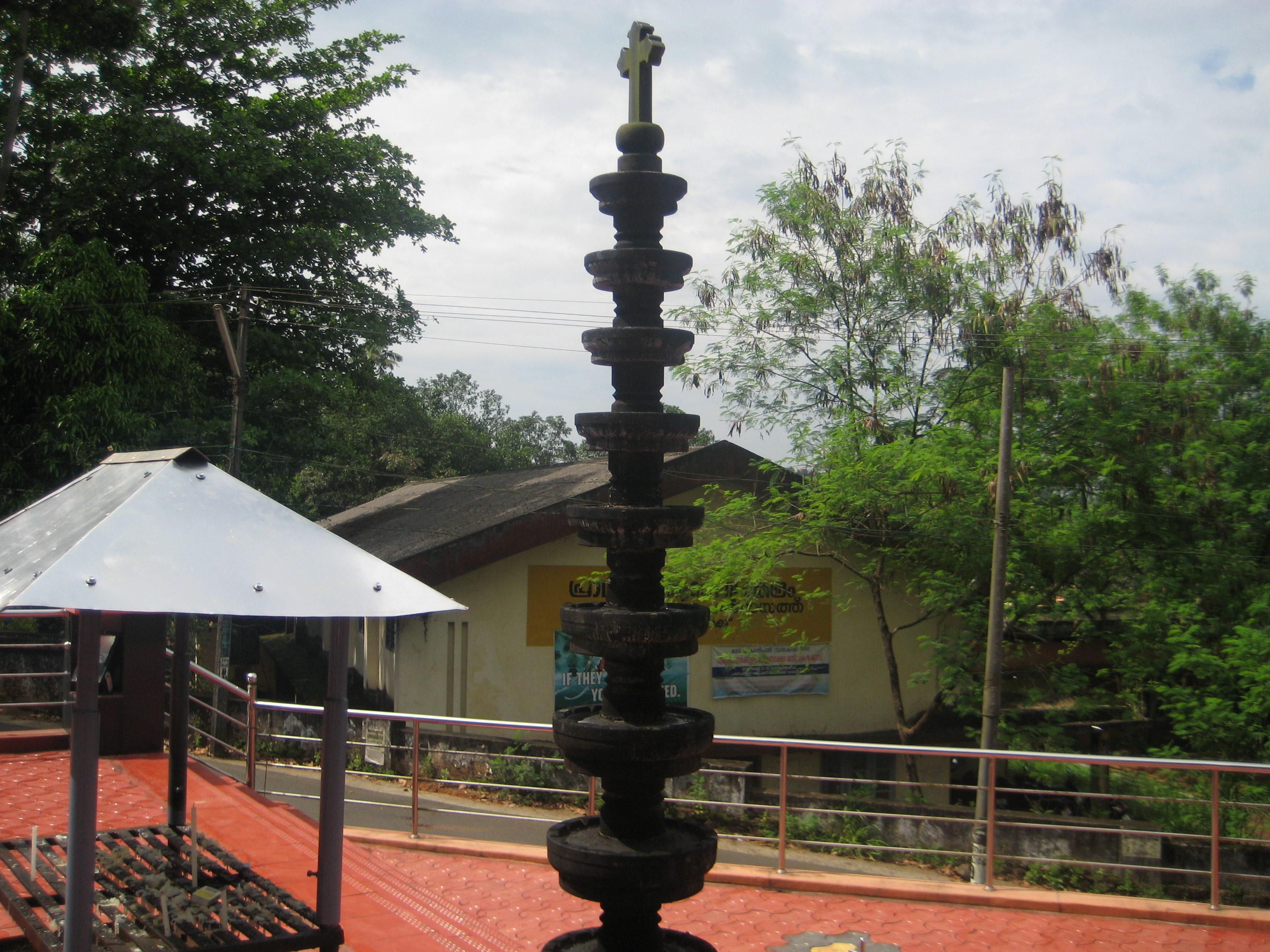 Kalvilak, it is carved out from strong stone, sometimes concrete. It is for decorative lighting purpose, by using vegetable oil and cotton thread. We could see the Kalvilak at Hindu temples in Kerala, where in Christians modified the Kalvilak with a cross Location at Vazhakulam Christian Church, Ernakulam, Kerala, India